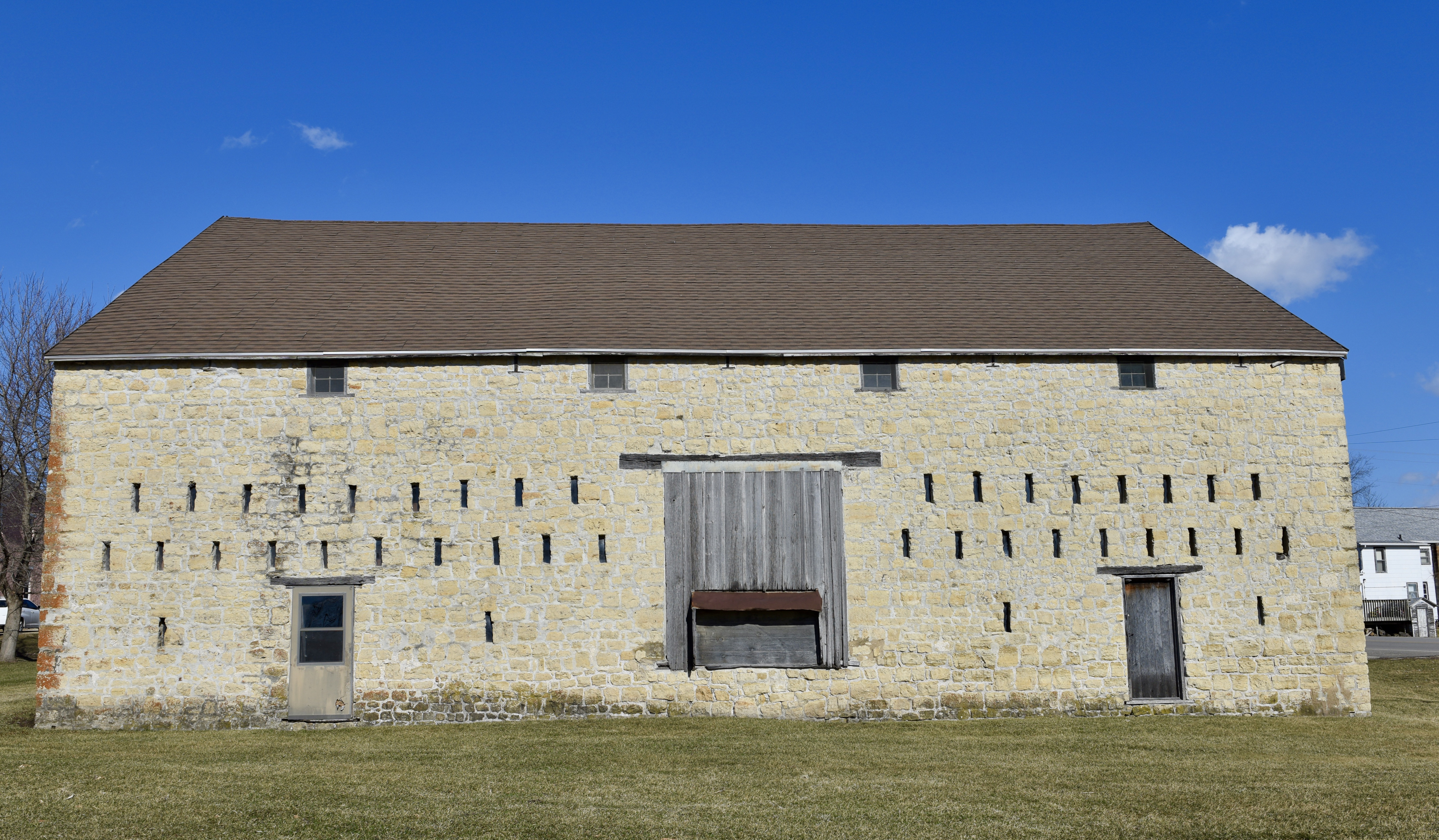 Gehlen House and Barn